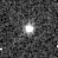 Hubble Space Telescope image of the Jupiter trojan (5025) 1986 TS6, taken on 10 January 2013